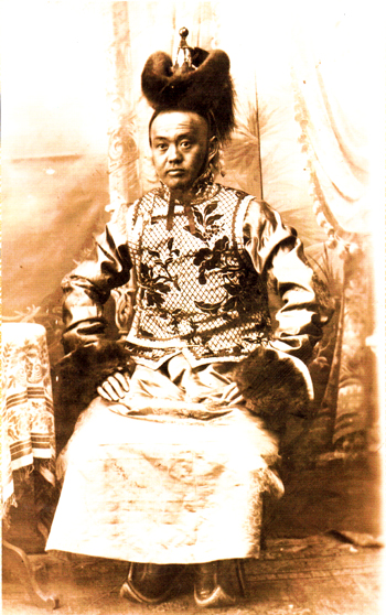 Erdene Dalay Jun Wang Gombosuren